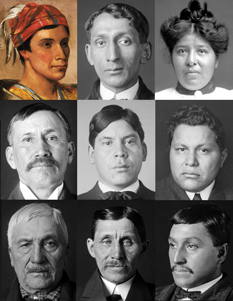 Collage of Oneida Native Americans from public domain sources.